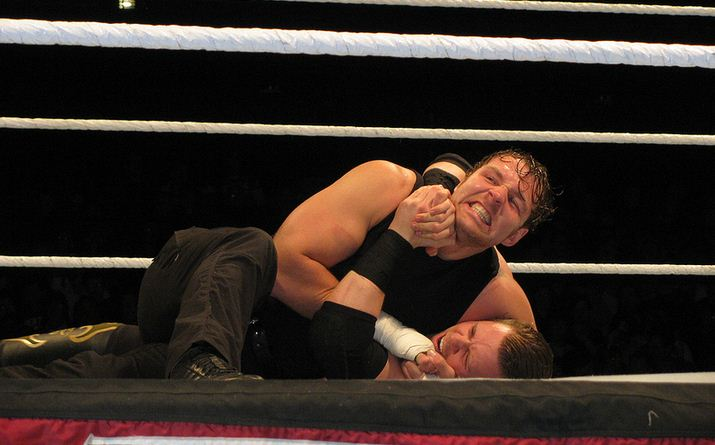 Dean Ambrose in WWE House Show